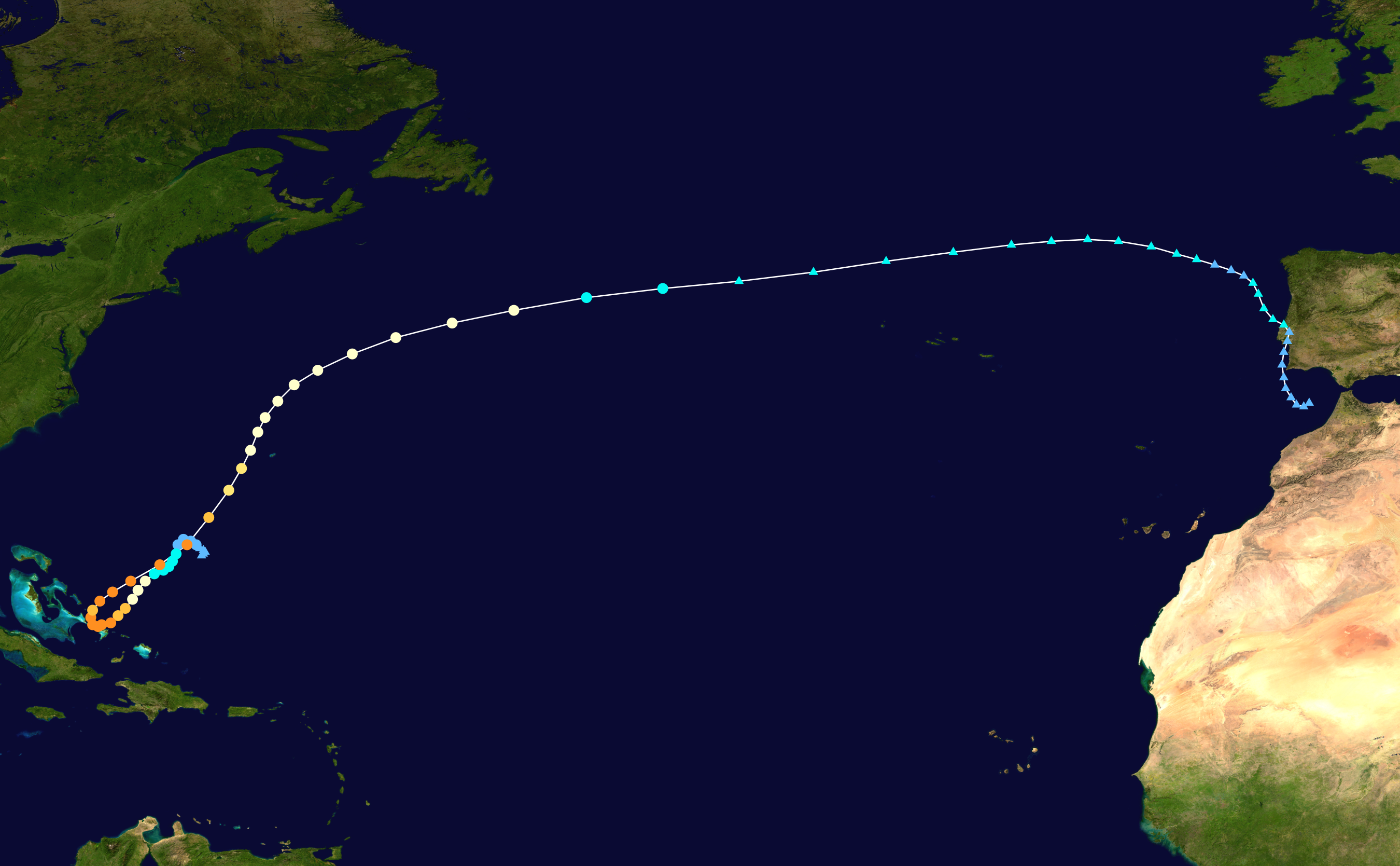 Track map of Hurricane Joaquin of the 2015 Atlantic hurricane season. The points show the location of the storm at 6-hour intervals. The colour represents the storm's maximum sustained wind speeds as classified in the Saffir–Simpson scale (see below), and the shape of the data points represent the nature of the storm, according to the legend below. Saffir–Simpson scale Tropical depression≤38 mph≤62 km/h Category 3111–129 mph178–208 km/h Tropical storm39–73 mph63–118 km/h Category 4130–156 mph209–251 km/h Category 174–95 mph119–153 km/h Category 5≥157 mph≥252 km/h Category 296–110 mph154–177 km/h Unknown Storm type Tropical cyclone Subtropical cyclone Extratropical cyclone / Remnant low / Tropical disturbance / Monsoon depression